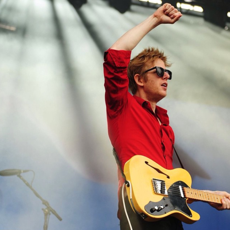 Britt Daniel performing live